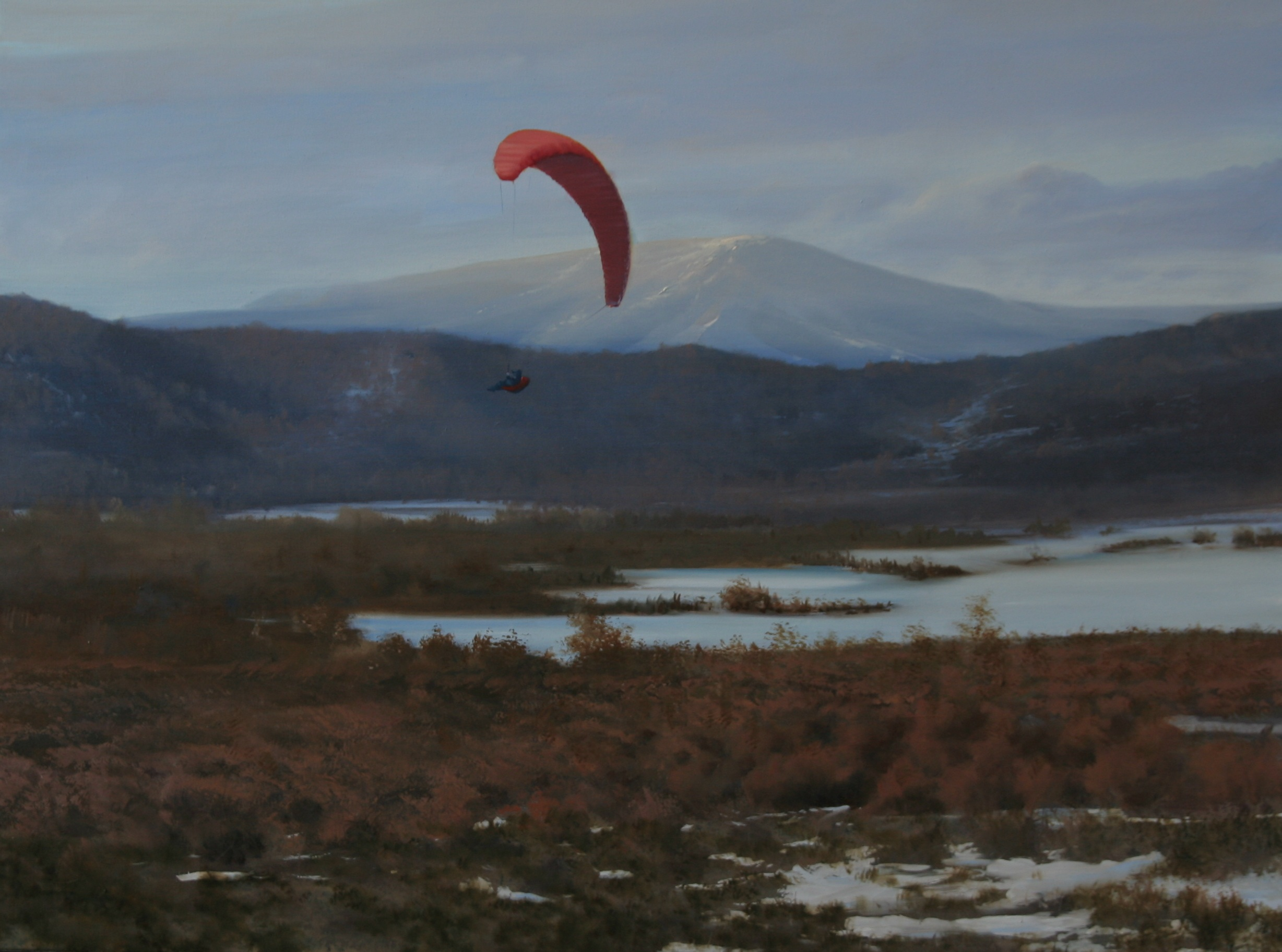 Termik, 2013, 90x120 cm, oil on canvas